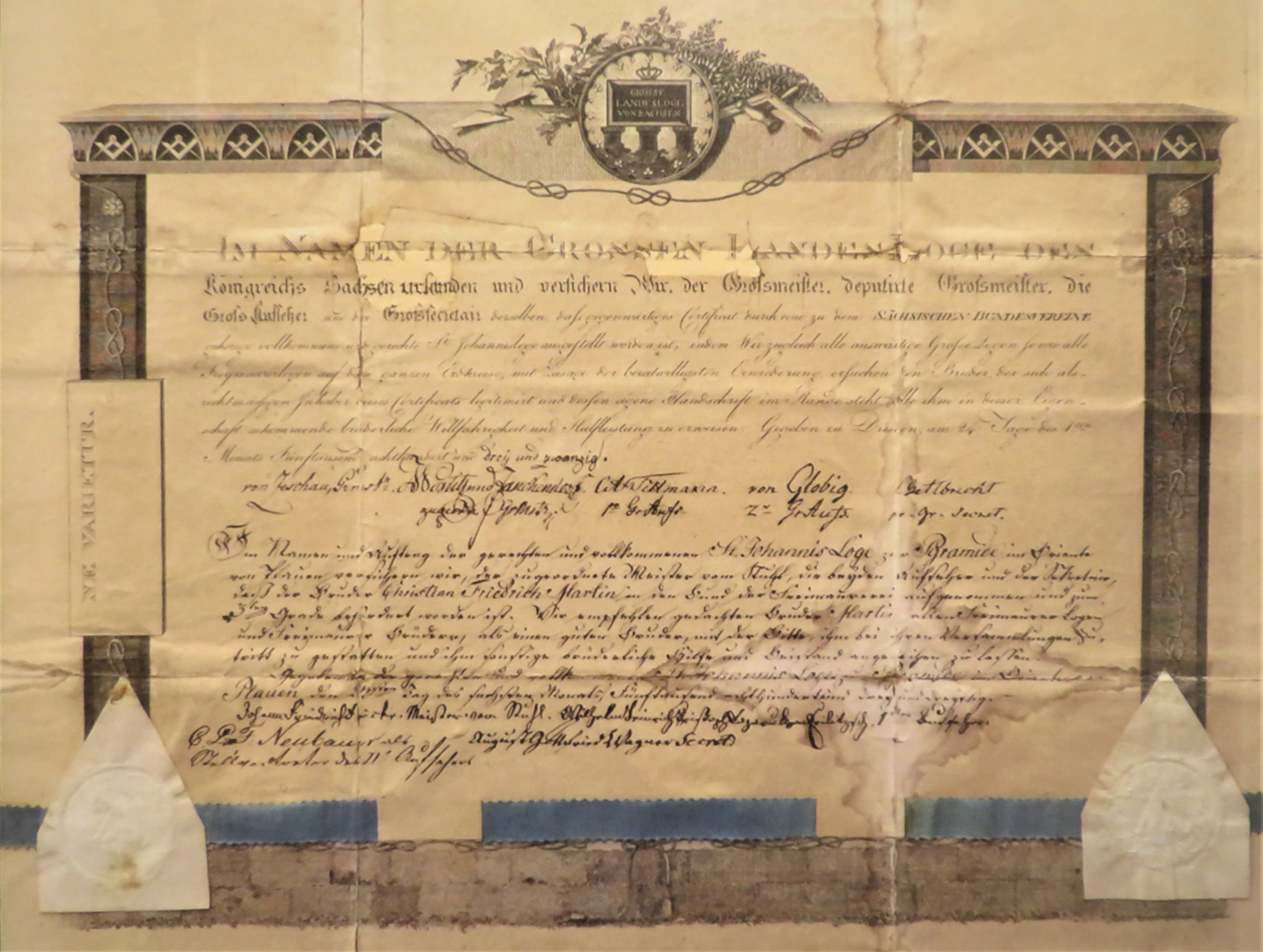 Masonic Travellng Patent, issued by the Grand Lodge of Saxony for Christian Freidrich (fFederick) Martin, 1823